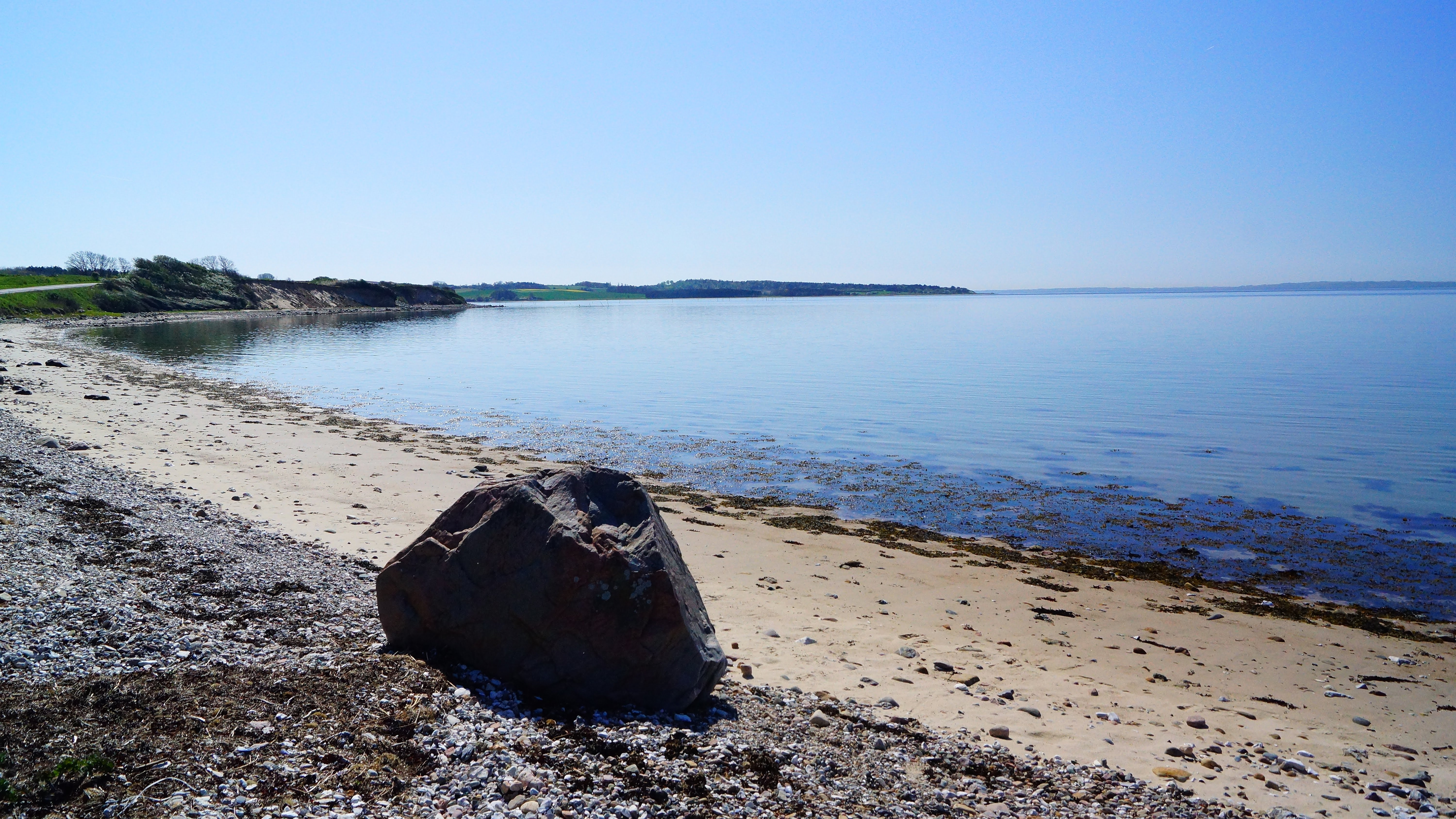 Begtrup Vig